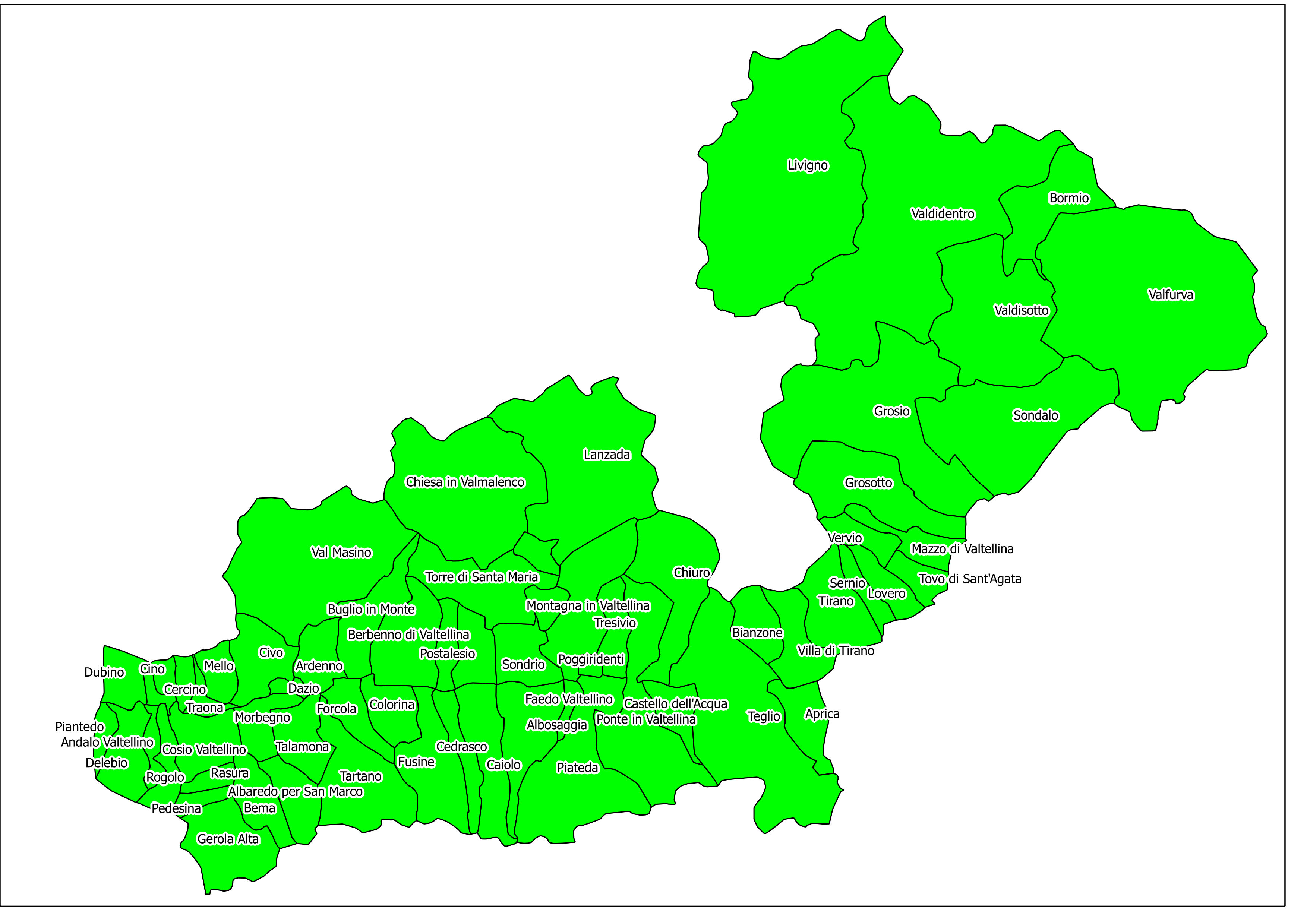 made with qgis